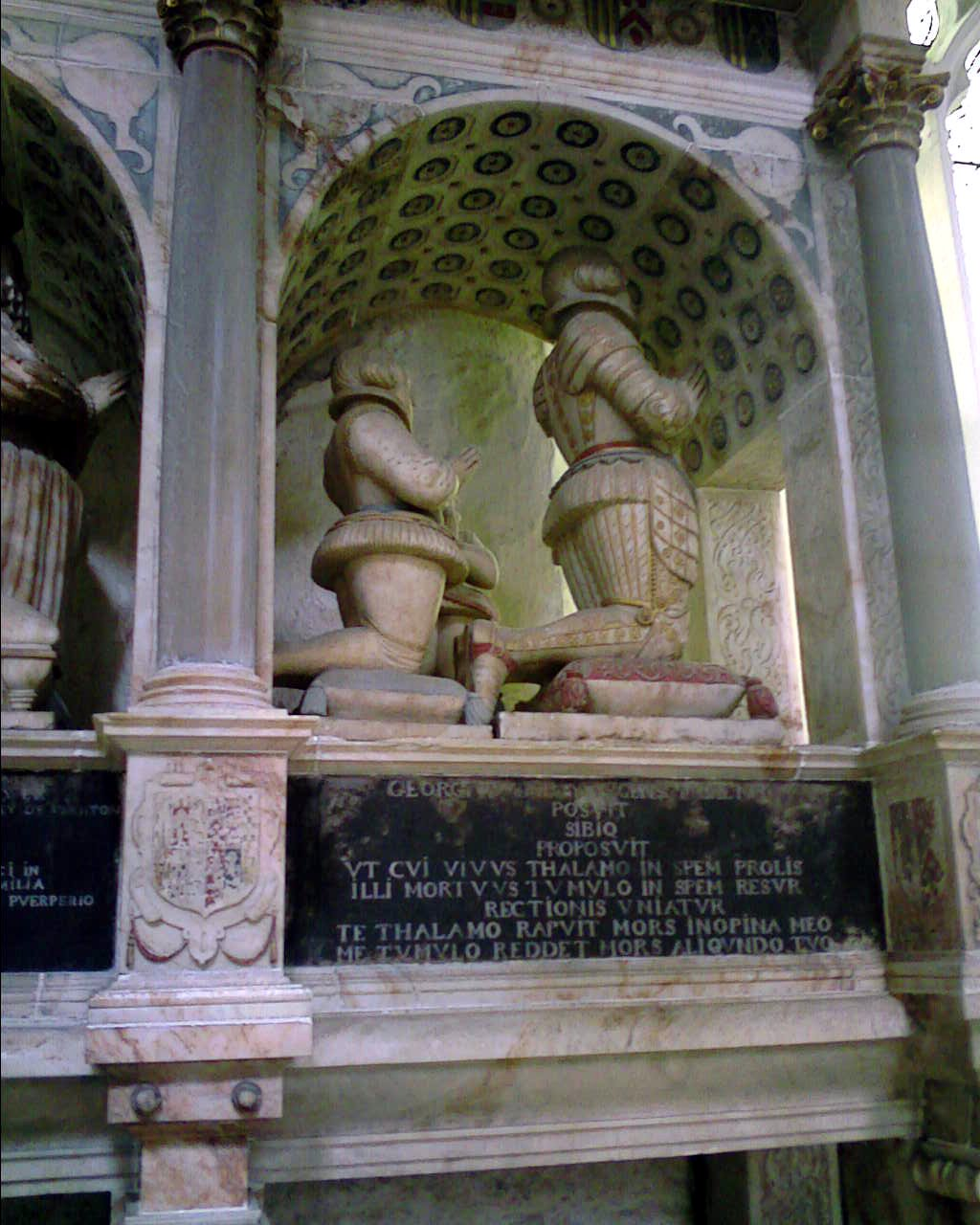 Tomb in Breedon on the Hill Church in Leicestershire. Dates back to 7th century. See Wikipedia entry for more